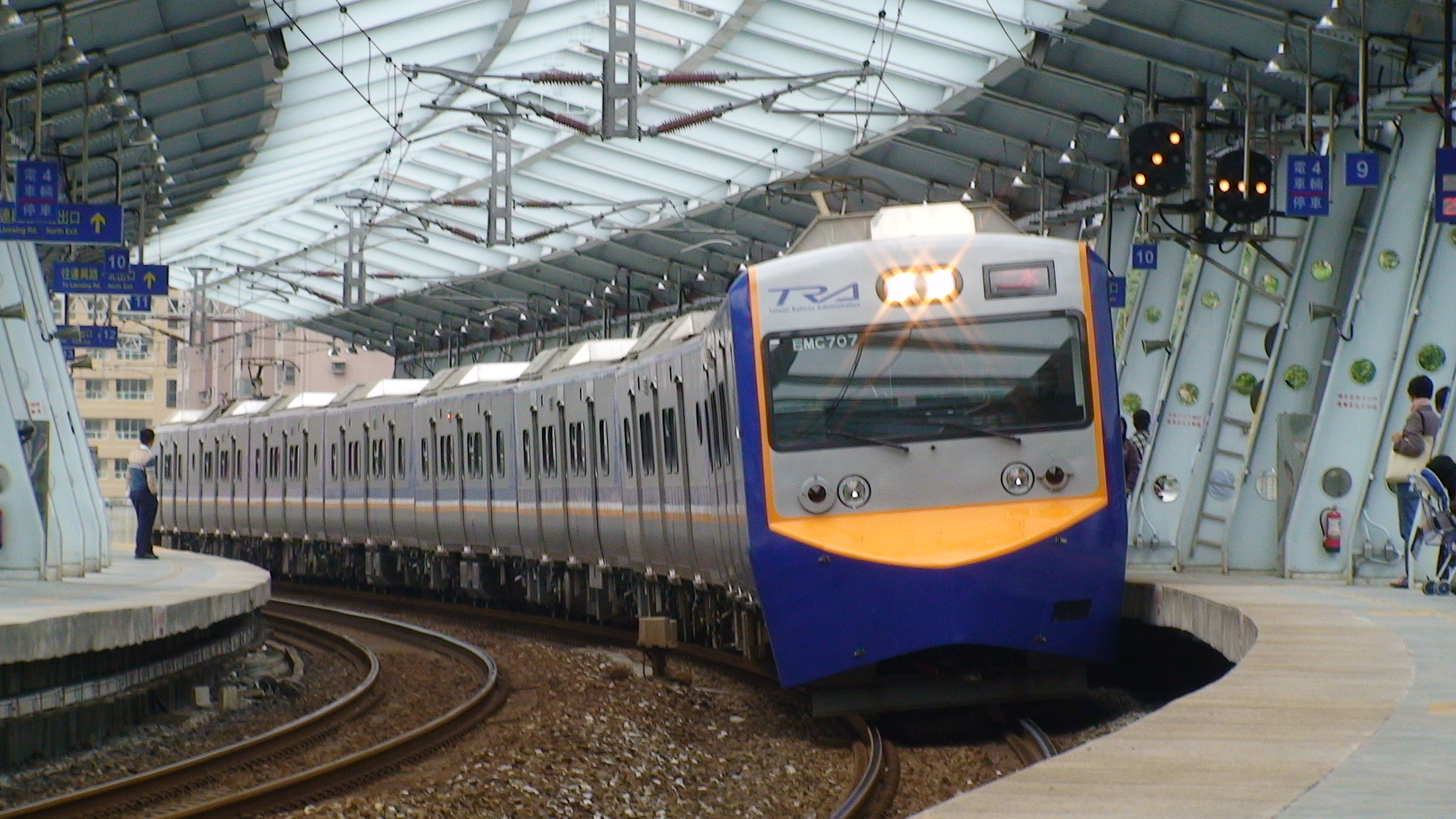 EMU707 train of TRA EMU700 series at Xike Station.